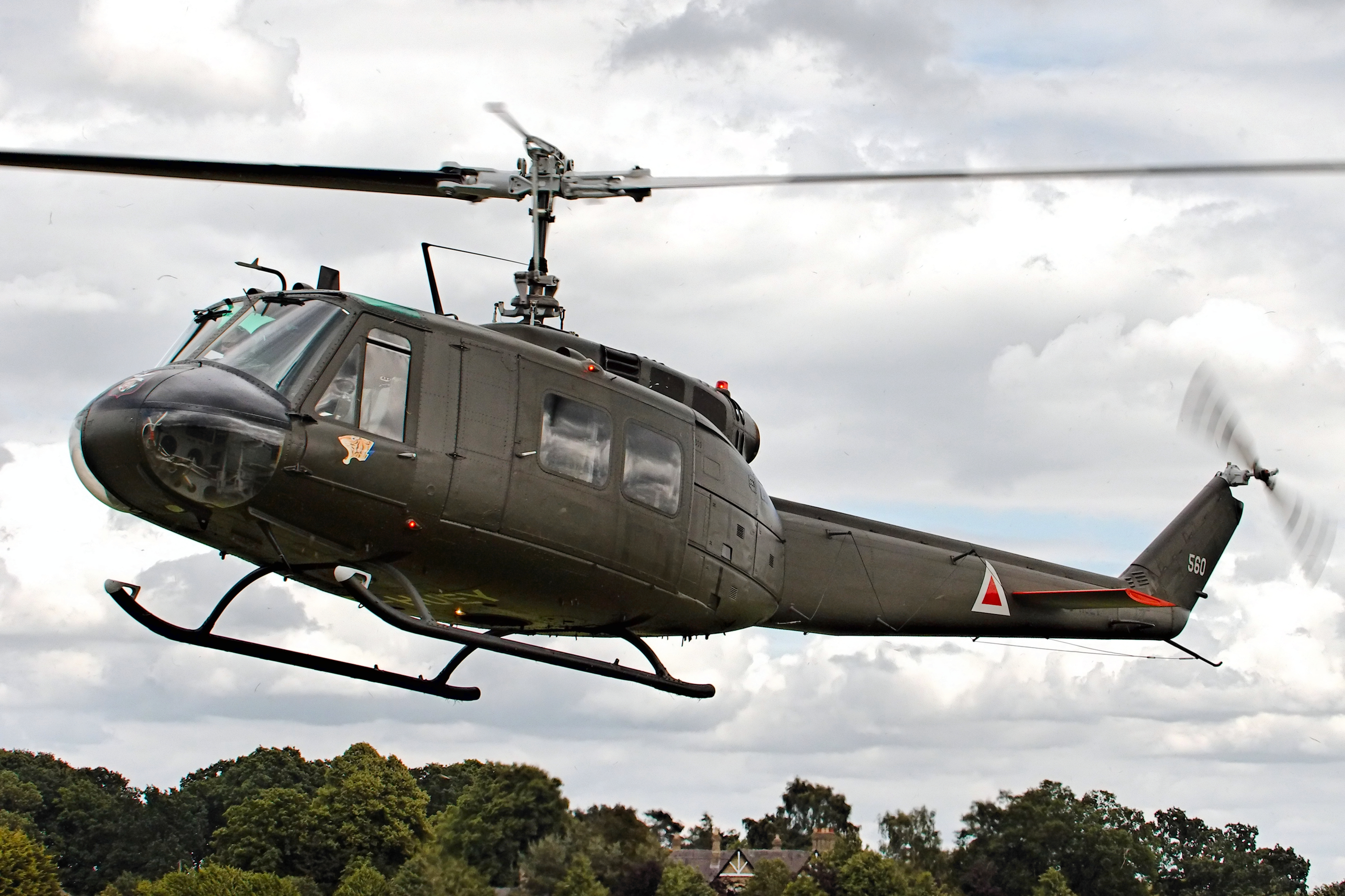 UH-1H Iroquois - Fly Navy 2017